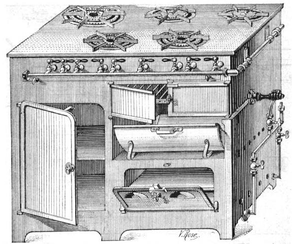 gas stove 1868